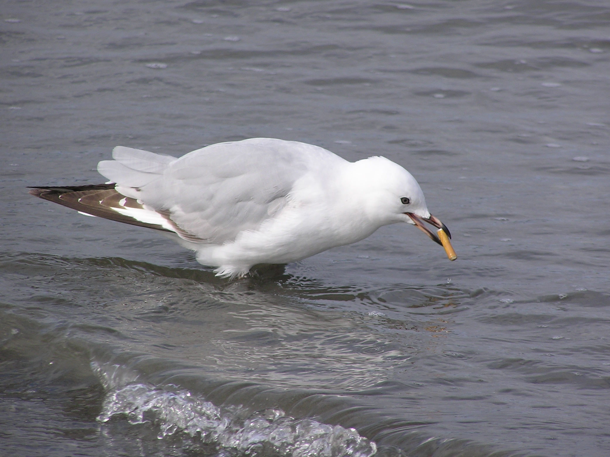 Immature Red billed gull trying out a cigarette butt as food (fortunately it didn't swallow it as the filter is basically indigestible). Petone beach, Wellington, New Zealand.